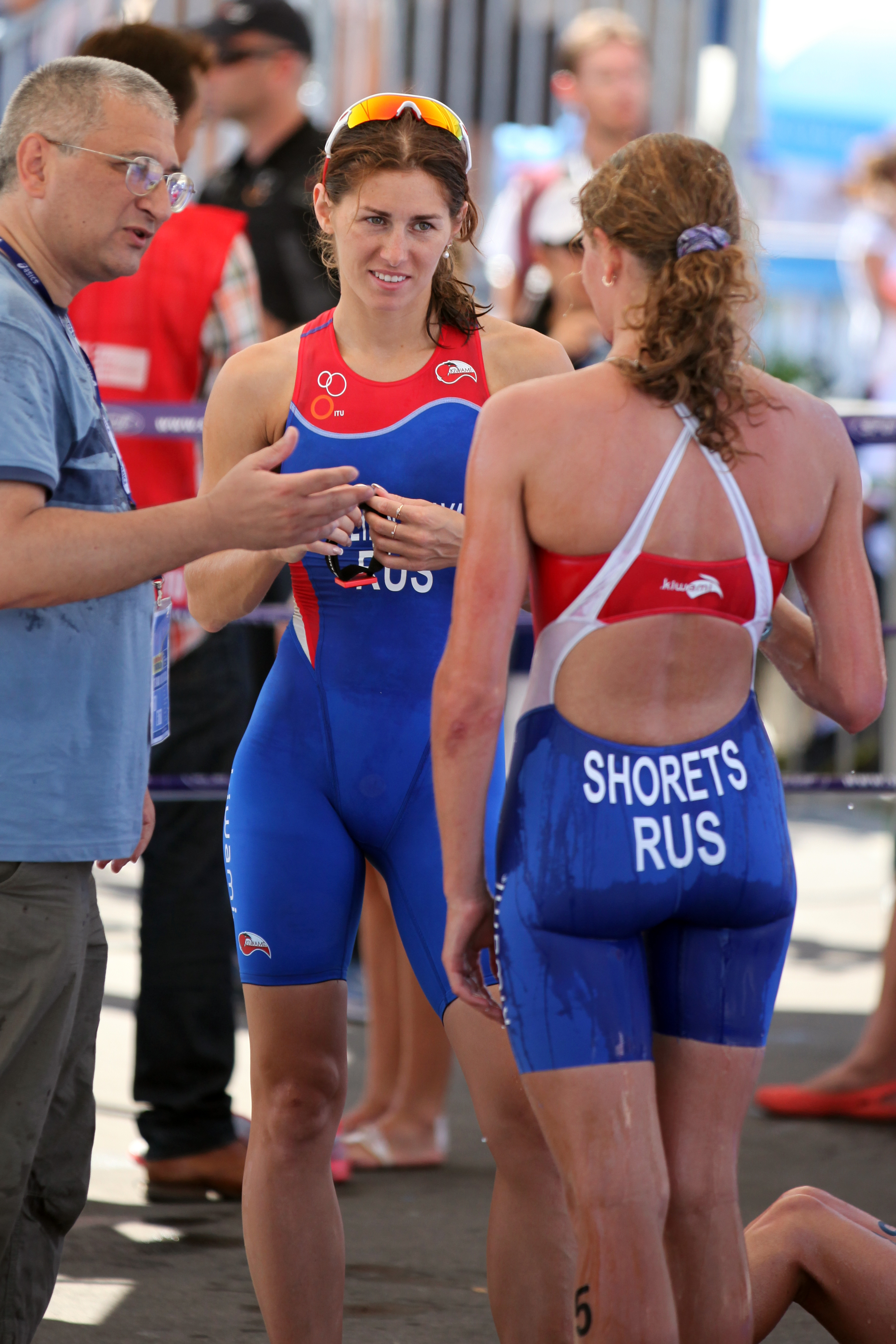 Anastasiya Polyanskaya, née Yatesenko, Russian Анастасия Сергеевна Полянская Яценко, at the Triathlon Sprint World Championships in Lausanne.